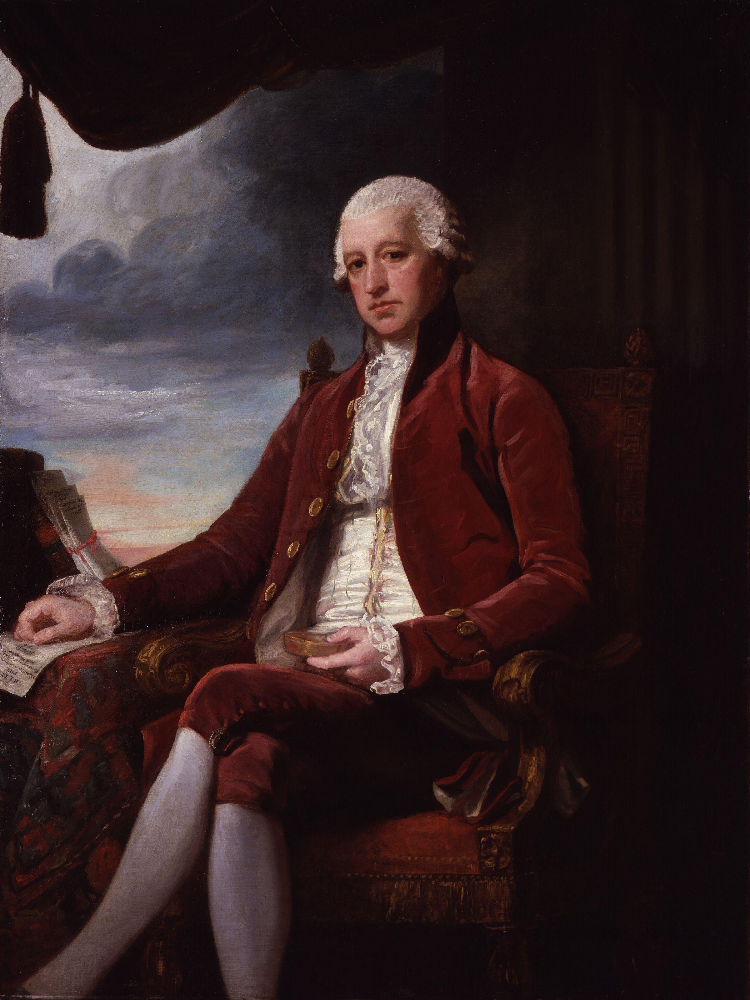 Charles Jenkinson, 1st Earl of Liverpool, by George Romney (died 1802). All images in this batch have been confirmed as author died before 1939 according to the official death date listed by the NPG.